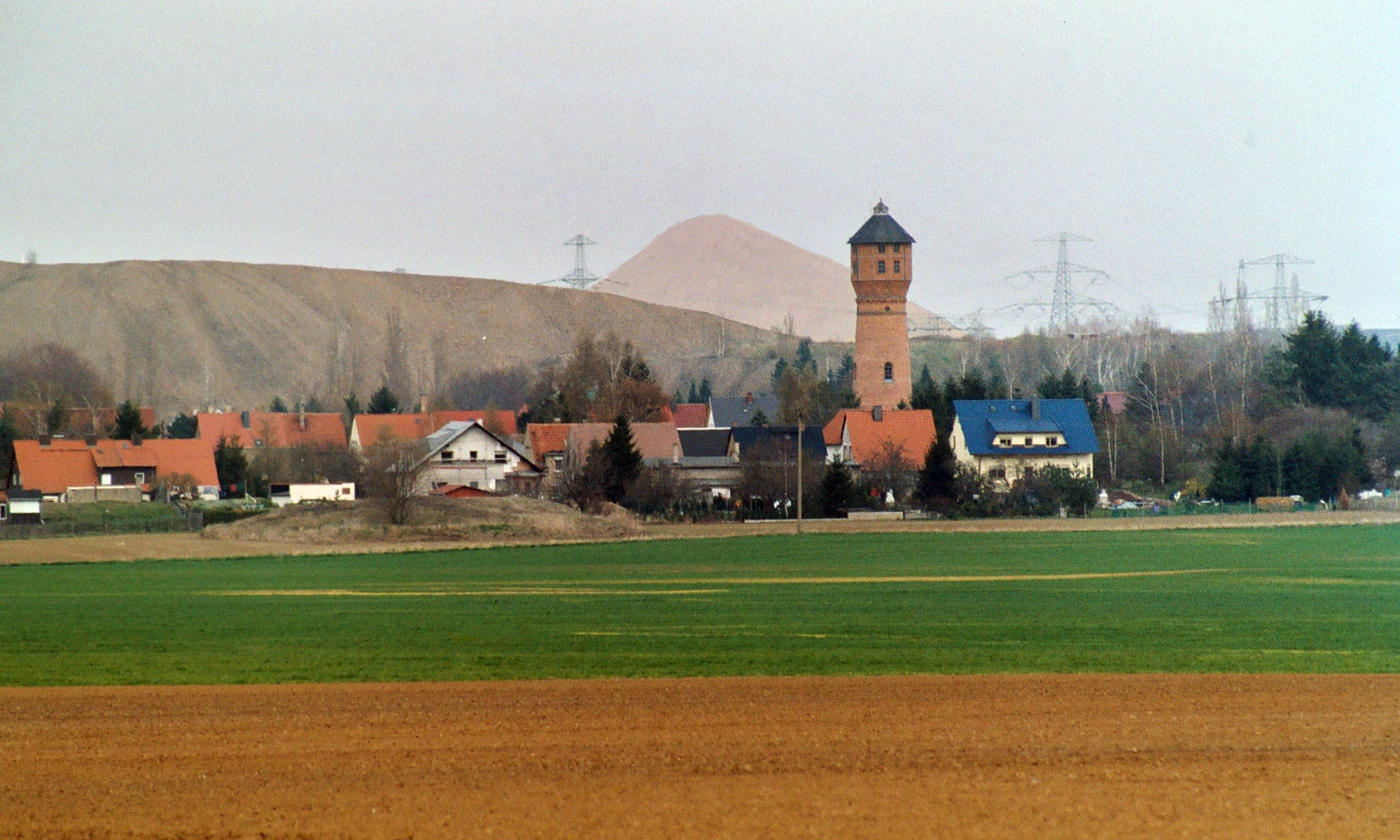 Klostermansfeld, view to the village and to the water tower